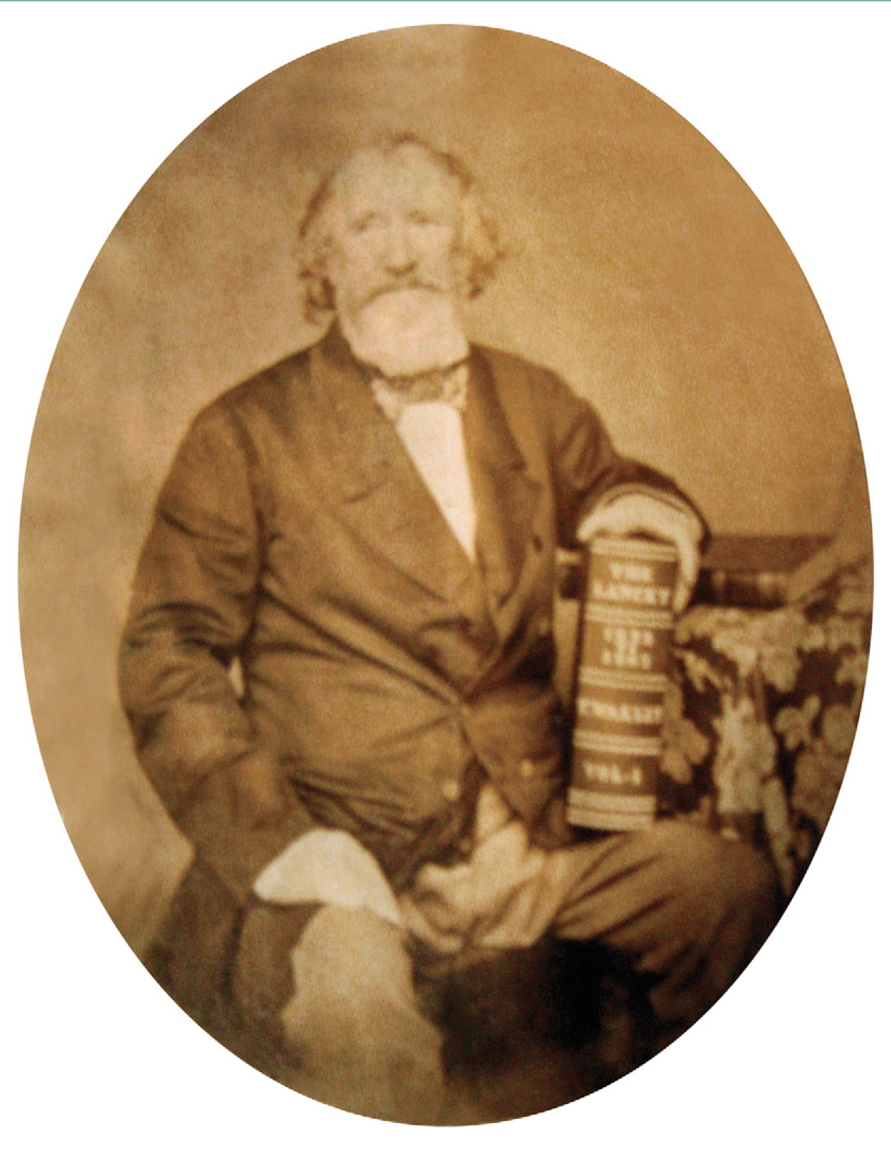 Thomas Wakley (1795–1862), English physician, founding editor of The Lancet, and a radical Member of Parliament (MP), only known photograph, most likely taken in studio on Madeira